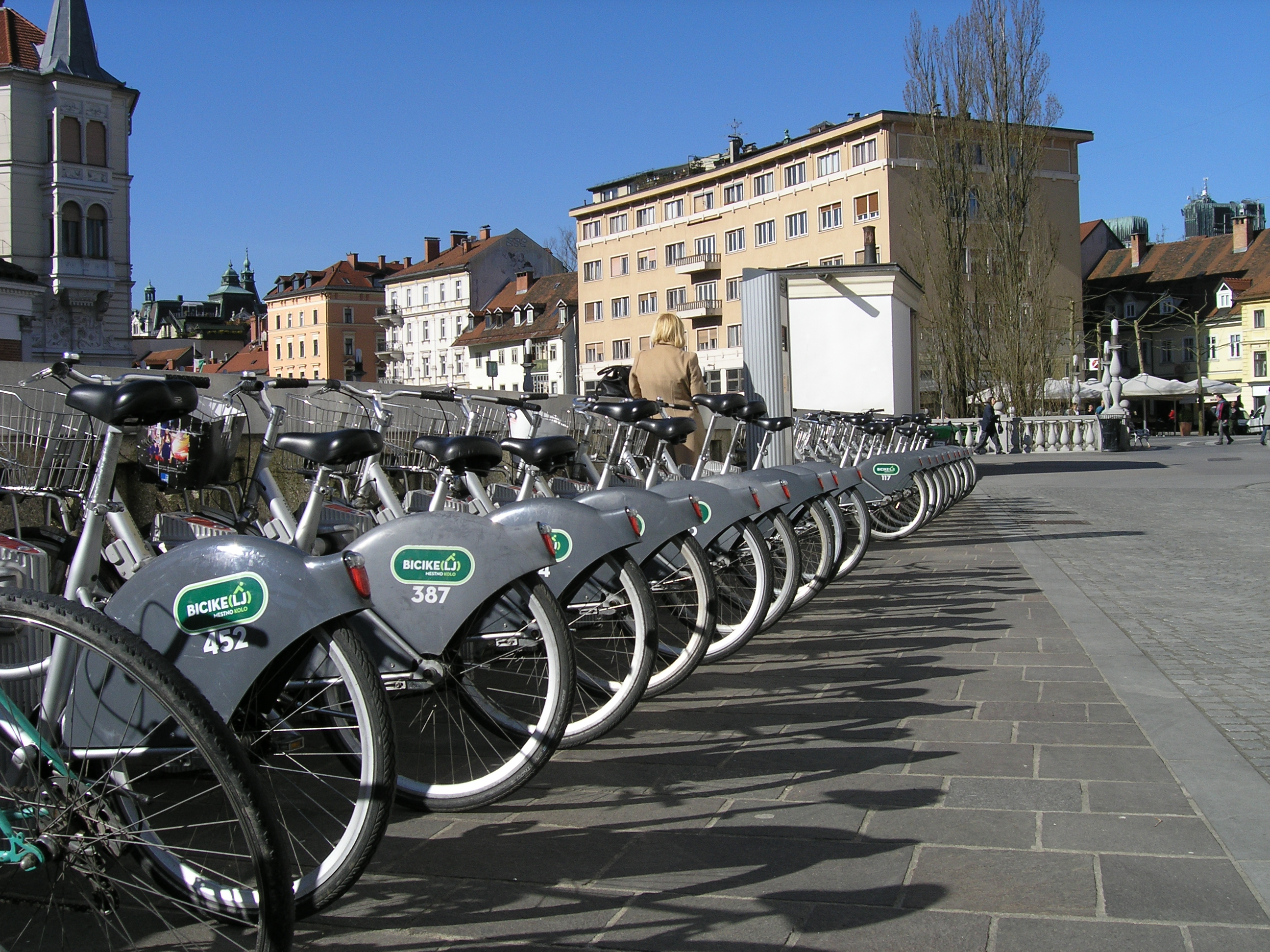 BicikeLJ Ljubljana-Prešernov trg, Slovenia.